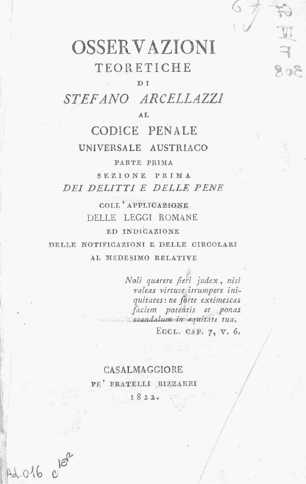 cover page of "Osservazioni teoretiche di Stefano Arcellazzi al codice penale universale austriaco. Parte prima. Sezione prima. Dei delitti e delle pene, coll'applicazione delle leggi romane ed indicazione delle notificazioni e delle circolari al medesimo relative., Casalmaggiore, Pe' Fratelli Bizzarri, 1822" written by Stefano Arcellazzi.